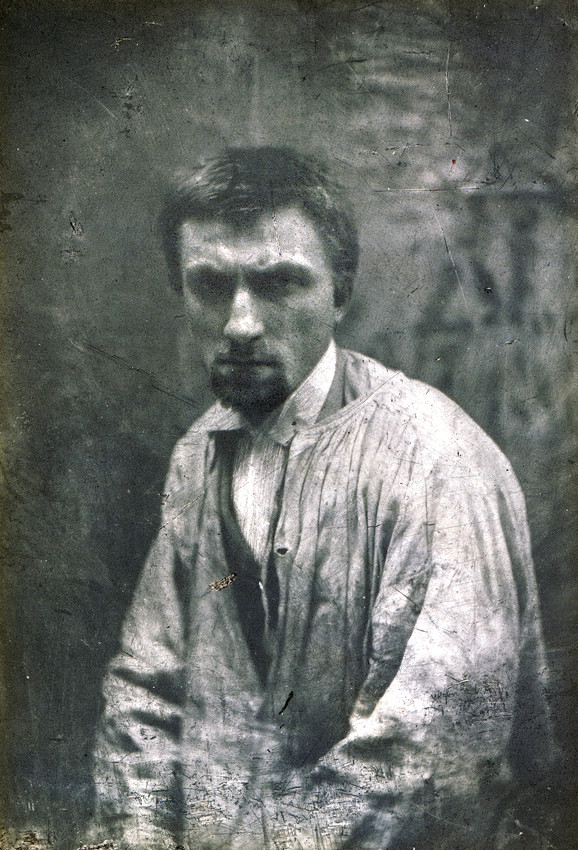 Portrait photograph of Auguste Rodin in his sculptor's smock